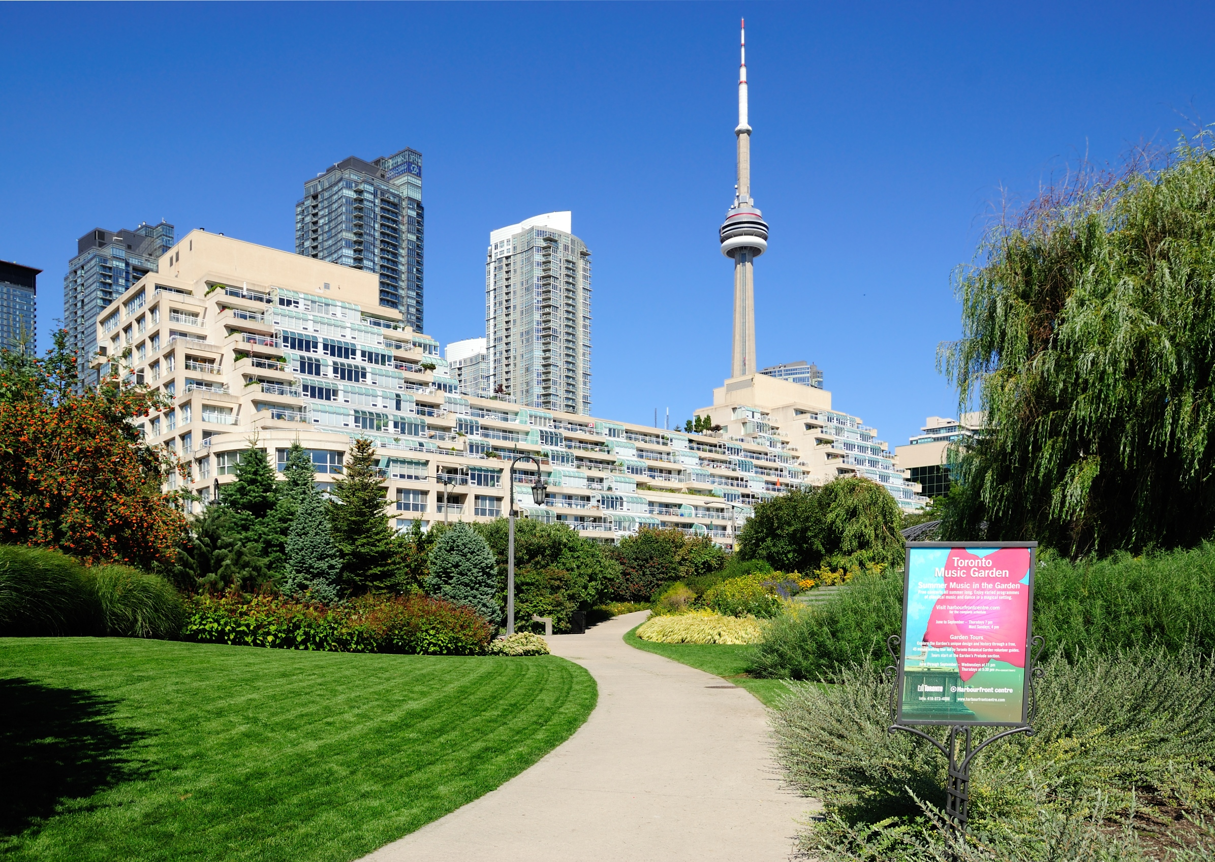 Toronto Music Garden with King's Landing Condominium